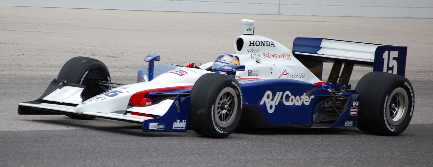 Buddy Rice driving at the Milwaukee Mile in 2007